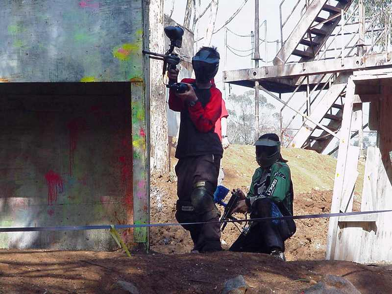 Public domain van [1] Bron: Beschrijving: Paintball - 2001-03-24. This crew totally kicked ass in this game. Little punks like this really piss me off. Camera: Sony FD-88, Not recorded, Lens: Not recorded, Not recorded, Not recorded, ISO Not recorded. Keywords: paintball License: This image is public domain. You may use this image for any purpose, including commercial. If you do use it, please consider linking back to this site.